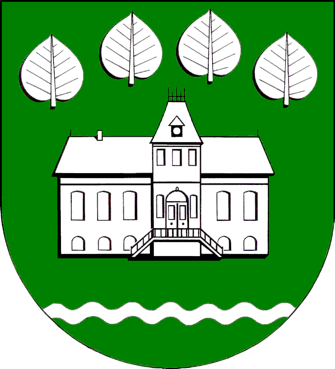 Coat of arms of the municipality Bokhorst in Schleswig-Holstein, Germany.